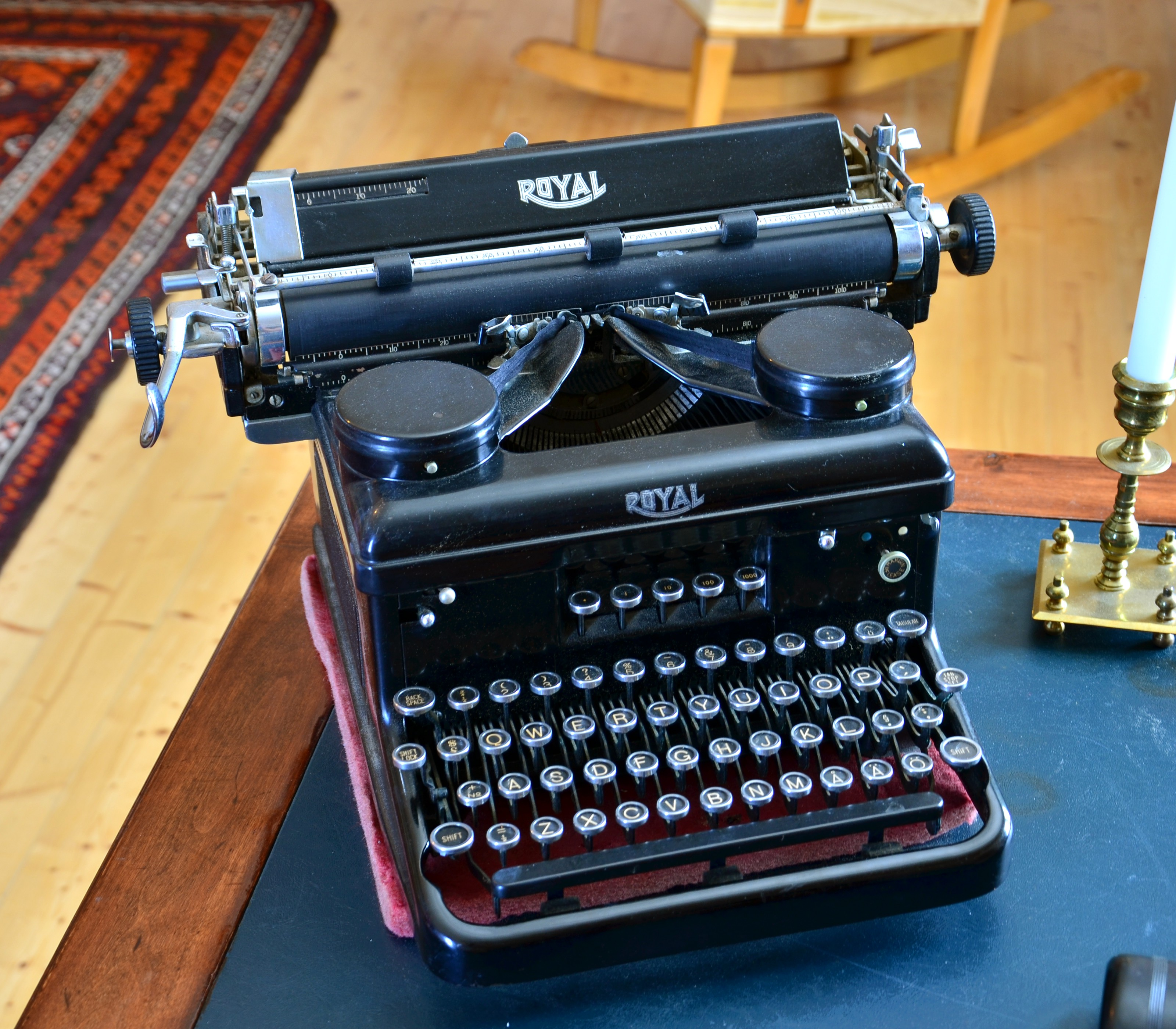 An (unidentified model) typewriter manufactured by the Royal Typewriter Company.